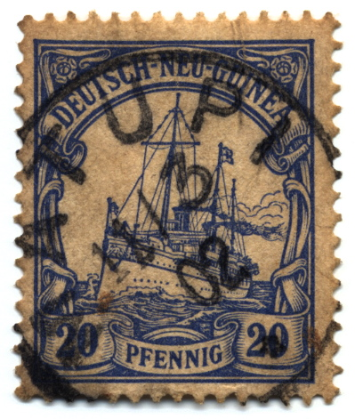 Scan of German New Guinea 20pf stamp of 1901